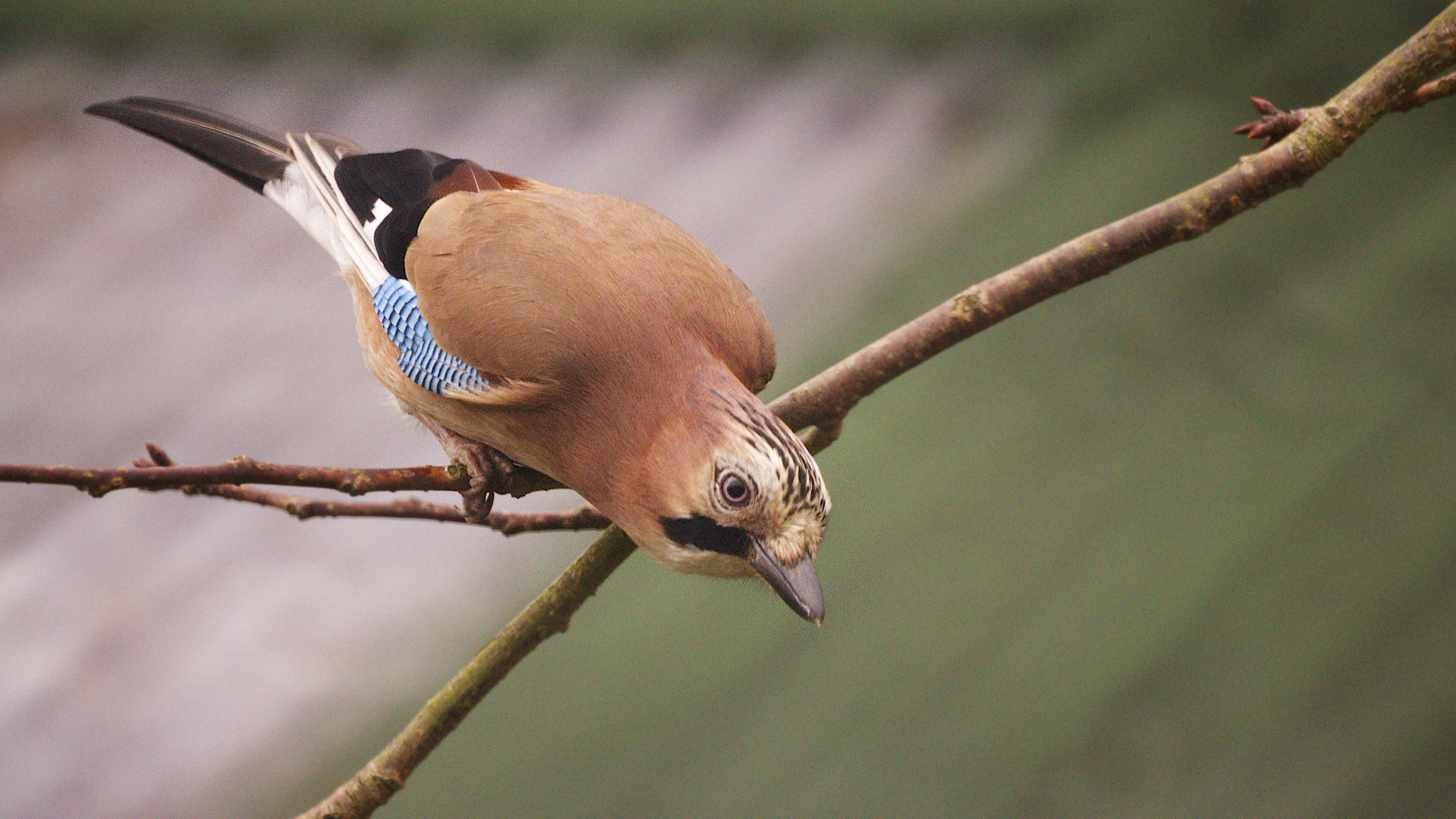 These shots were all taken from my workstation while working at home - I'm easily distracted - in appalling low light and through a closed window. These images are therefore soft and noisy. This is the ever-present Jay.